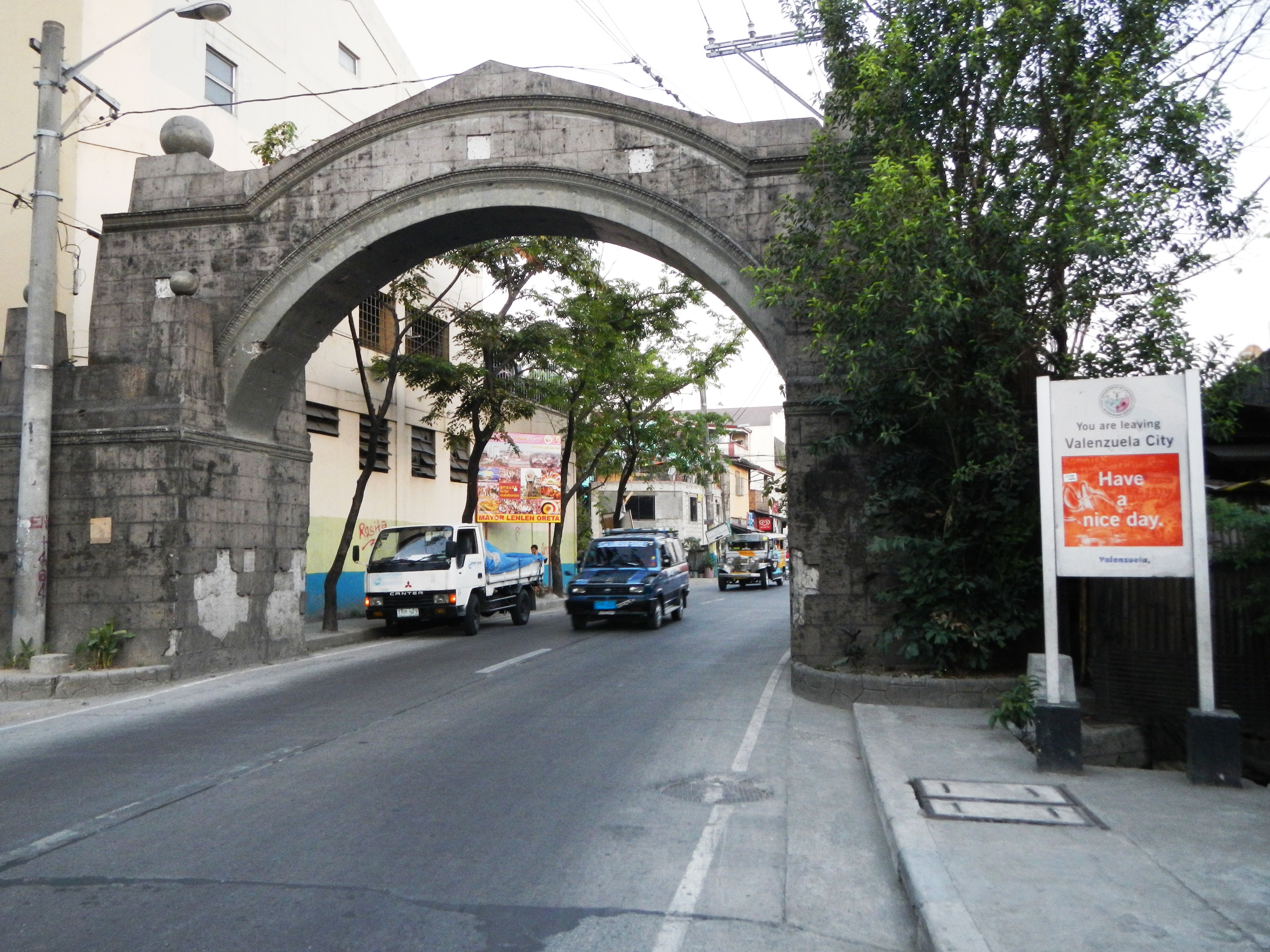 Barangay Arkong Bato, Valenzuela City, [1] the famous stone arc landmark that demarcates the boundary between the barangay arkong bato at Capt. J Templora, Santulan of Malabon built by the Americans in 1910, originally as a boundary between Rizal and Bulacan province - very near is the Captain Delfin Velilla aka Delfin Velilla Navarese statue and monument, memorial (a KKK member who was also a medicine student of Univeristy of Santo Tomas).